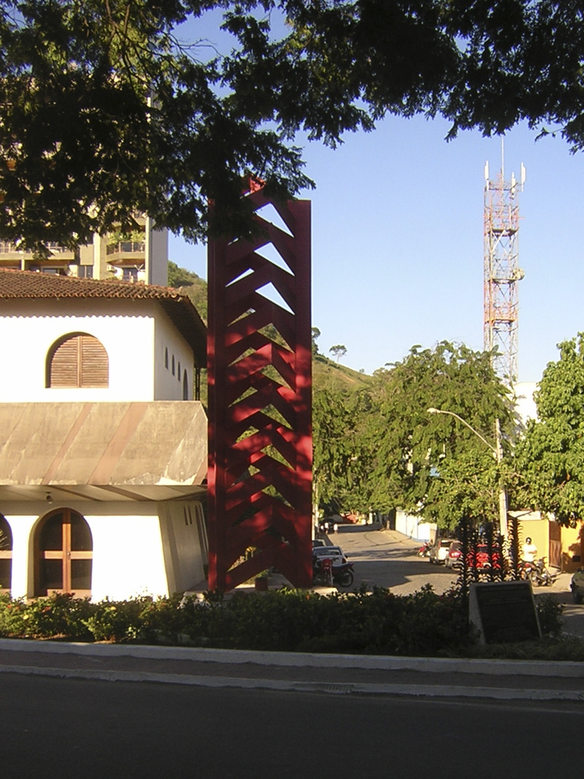 Monument to the italian immigration in Castelo (Espírito Santo), Brazil. Artist: José Carlos Vilar de Araújo (known as Vilar). Date of creation: 2006.